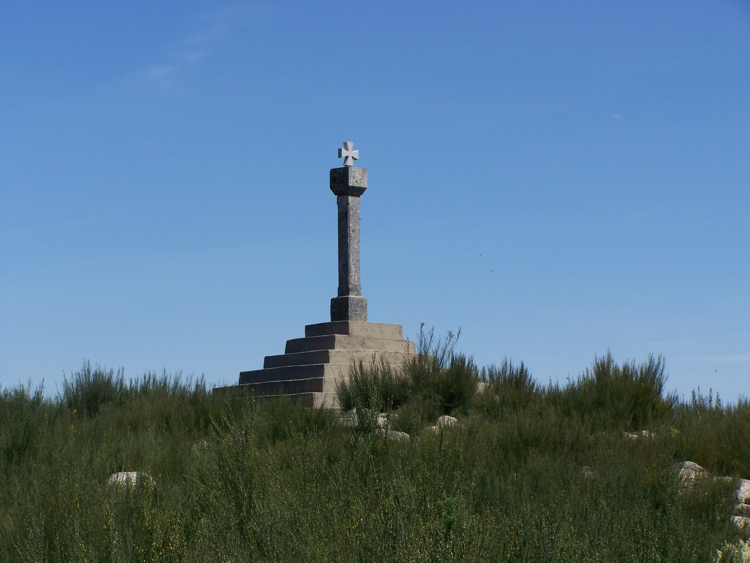 cruzeiro hidrográfico in Vale de Estrela near Guarda in Portugal, built in 1942: from this viewpoint you can see the tributaries of three portuguese main water systems, that of the rivers Douro, Mondego and Tejo (or Tagus, Tajo). Great view of the mountains of the Serra da Estrela, too!